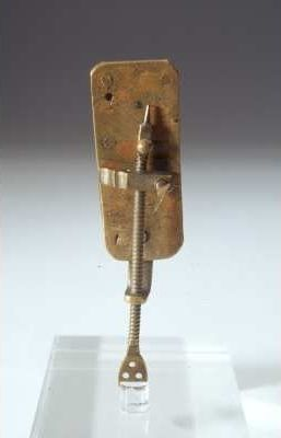 Van Leeuwenhoek microscoop